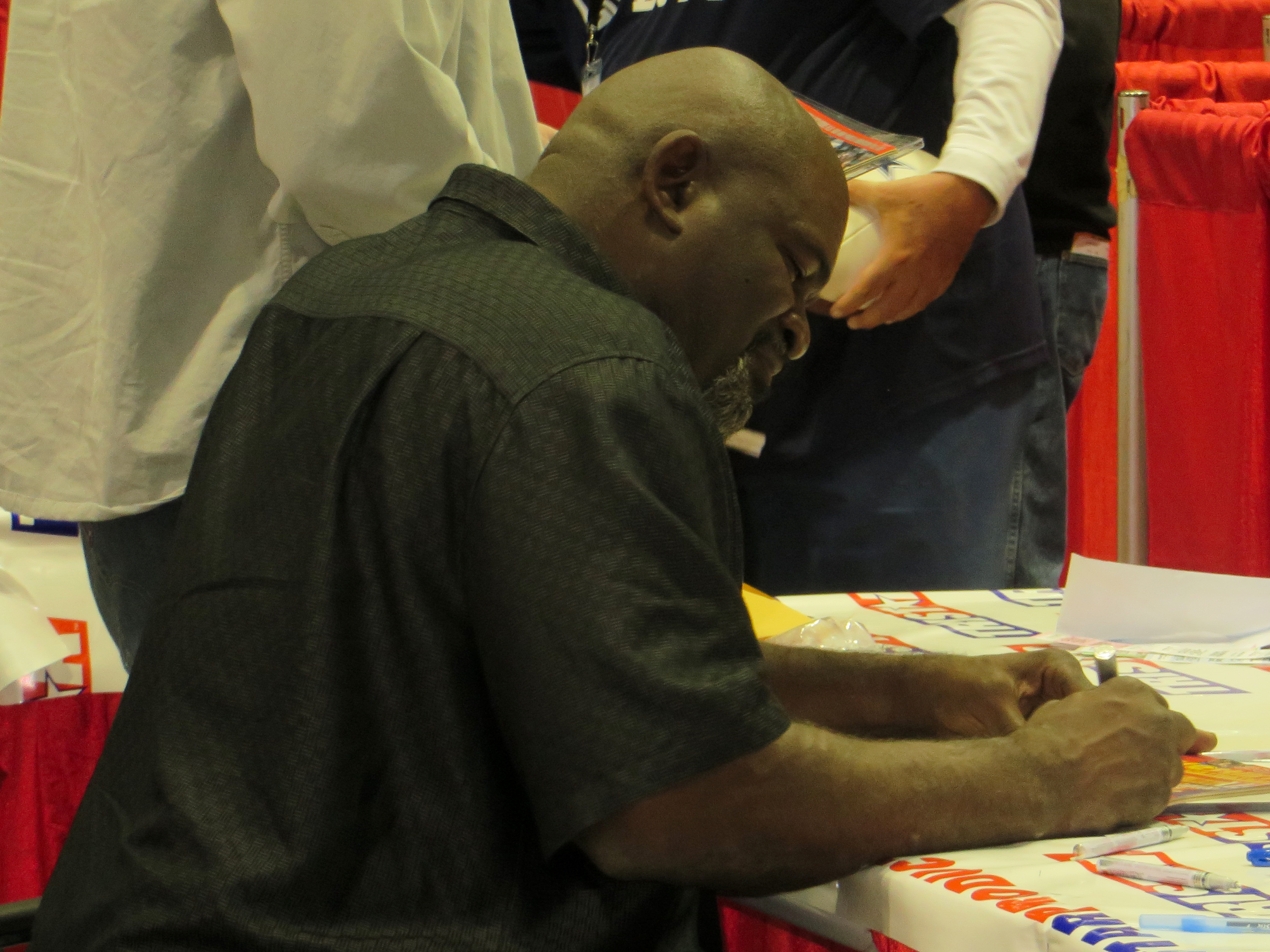 Lawrence Taylor signing autographs at a Tristar Productions collectors show in Houston in January 2014.